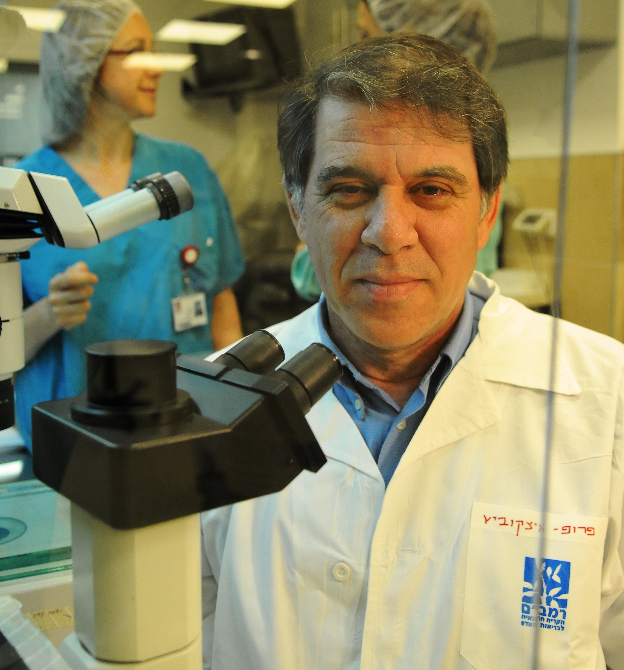 prof. Joseph Itskovitz-Eldor